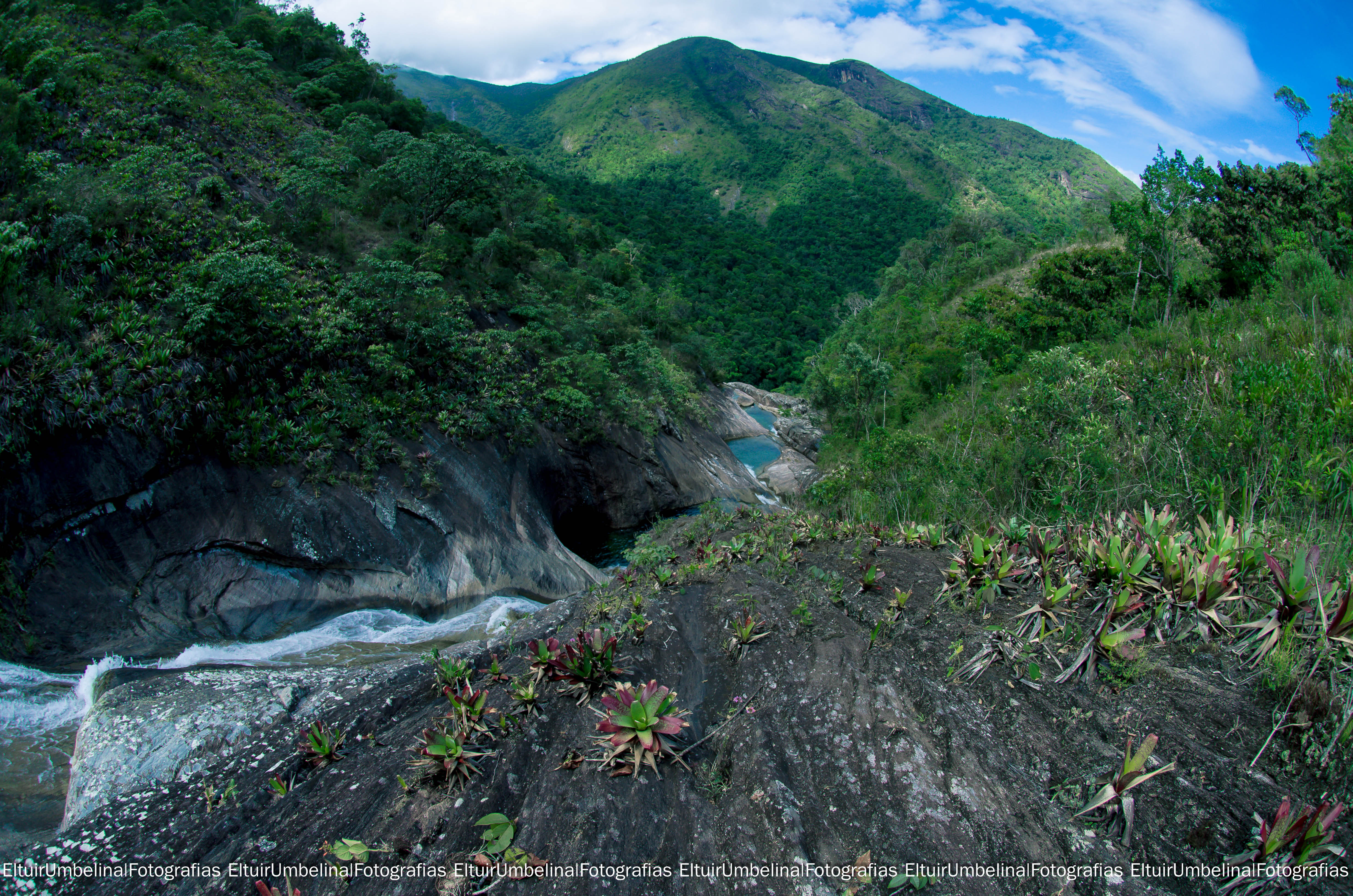 Photos Taken in Pico da Bandeira and around the Serra do Caparaó , where is located the Pico. BY Eltuir Umbelina . The saw Caparaó division states of Espirito Santo and Minas Gerais, rich in Mountains Region , waterfalls and known for its Specialty Coffee Production .